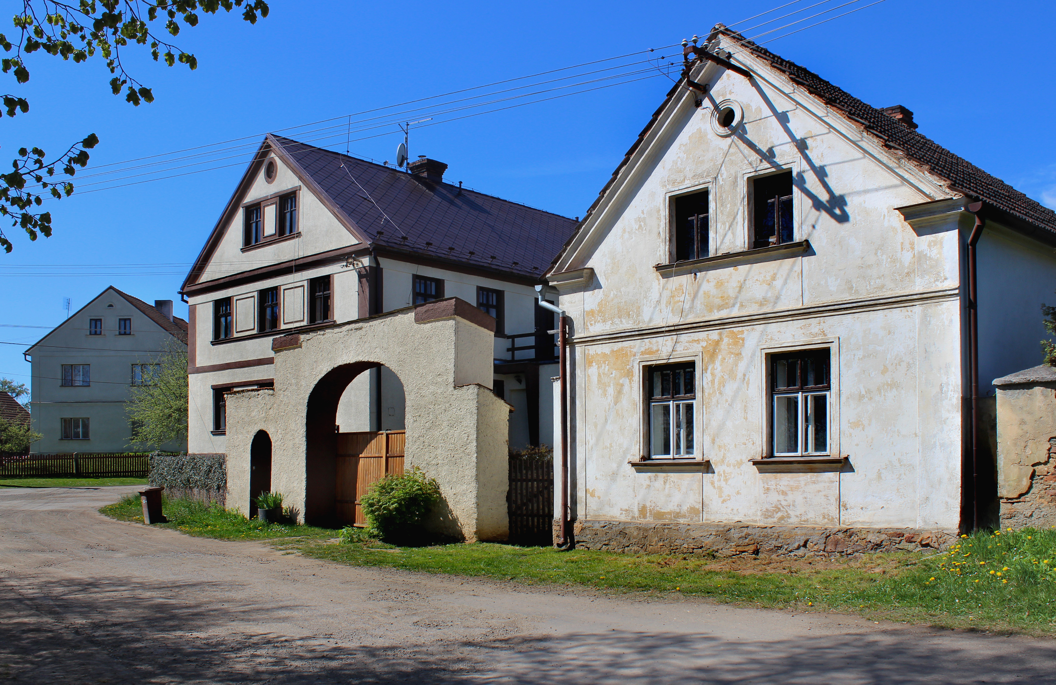 Common in Kšice village, Czech Republic